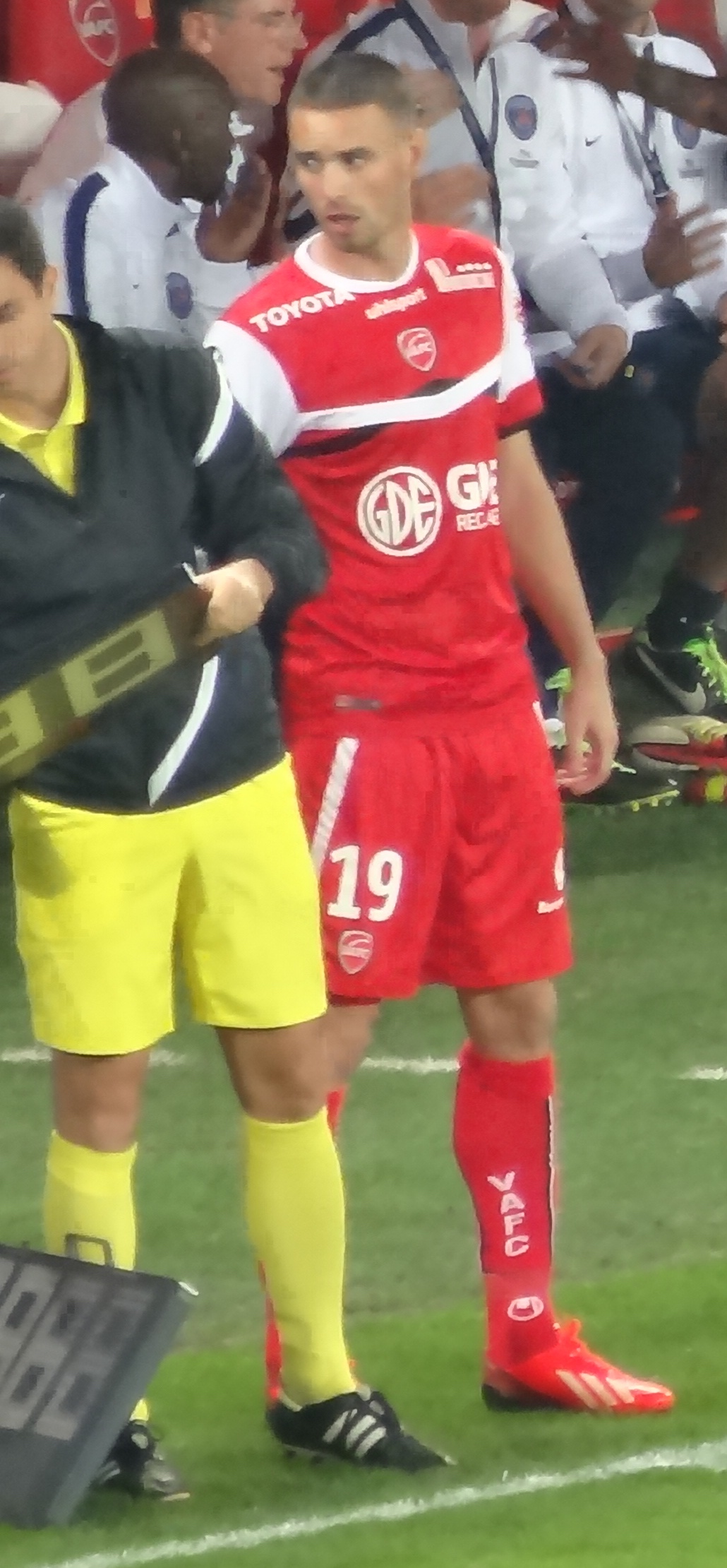 Anthony Le Tallec, Valenciennes, 2013